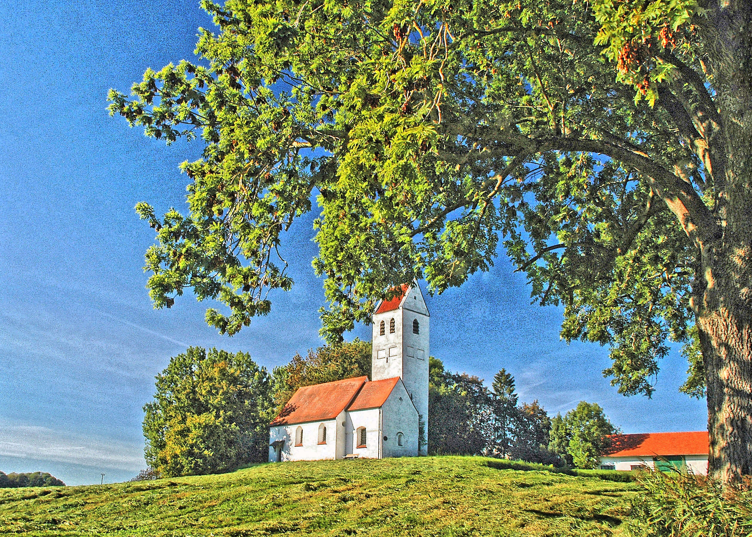 St. Stefan Church in Steinkirchen near Dachau (Germany)